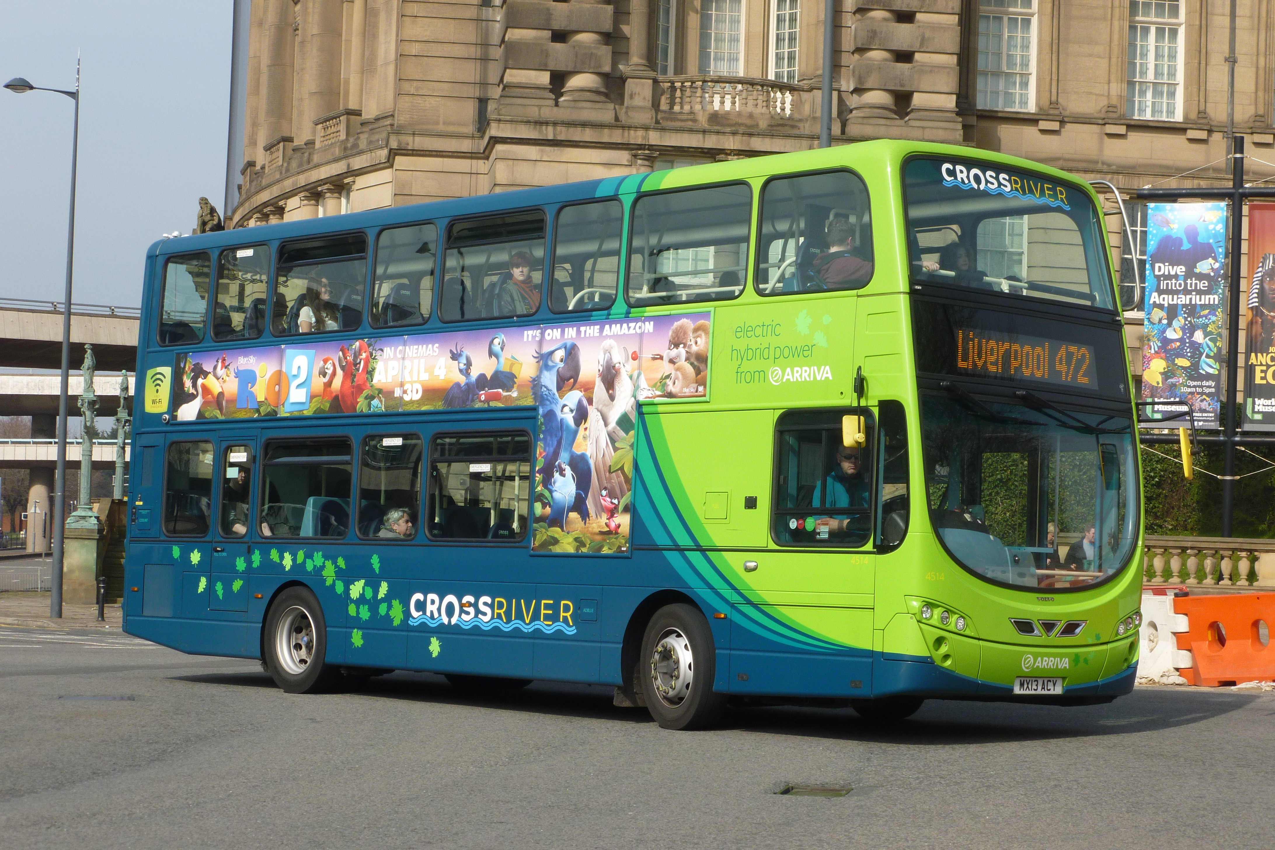 Arriva North West bus 4514, MX13 ACY, a Volvo B5LH diesel-electric hybrid with Wright Eclipse Gemini 2 body, arriving in Liverpool on route 472. It has just left the Birkenhead (Queensway) Mersey Tunnel and is turning right towards Whitechapel.